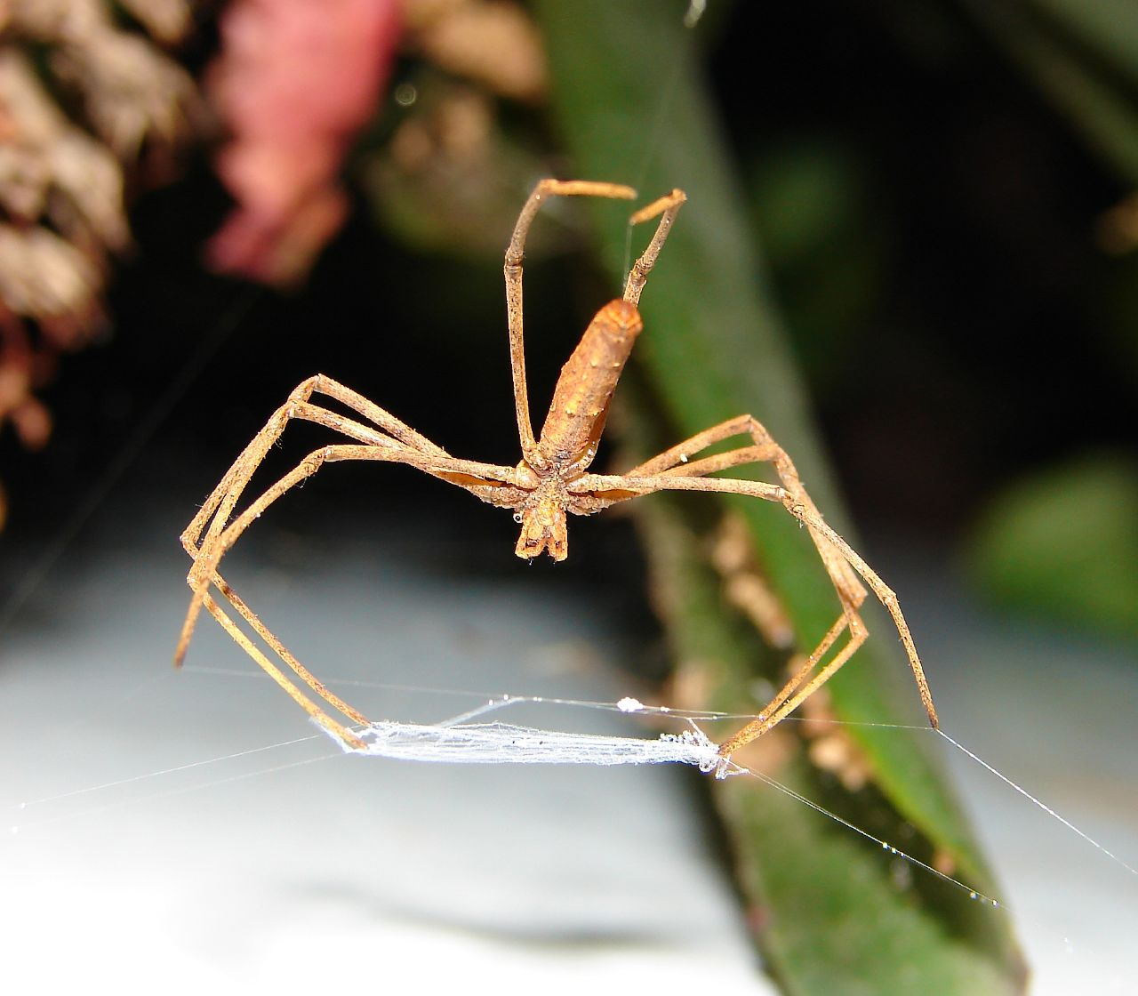 A net-casting spider (Deinopidae) waiting for dinner.